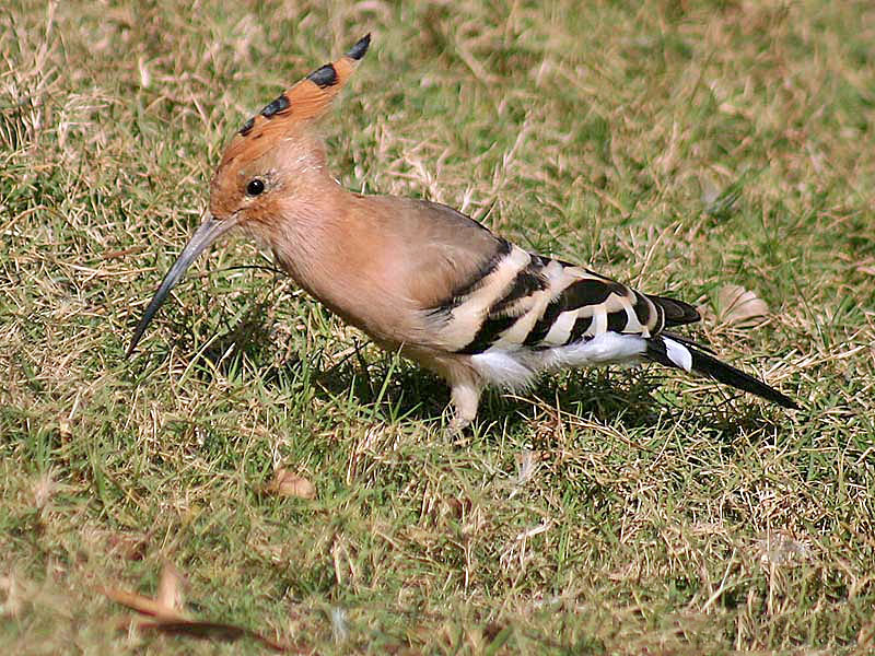 Common Hoopoe Upupa epops at/ near Hodal in Faridabad District of Haryana, India.